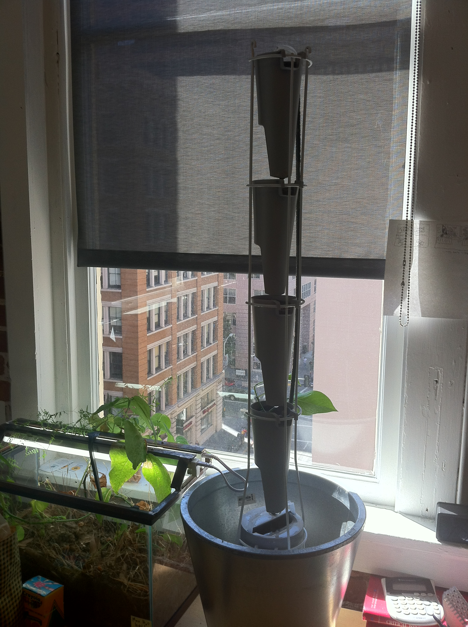 A newly planted Windowfarm at the Wikimedia Foundation in San Francisco. (Next to a terrarium)